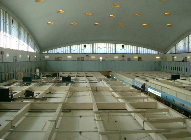 Inside Smithfield market III, EC1